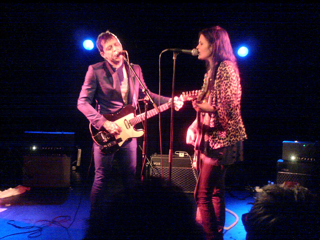 The Kills performing on stage at the Lille Vega in Copenhagen. The photo has been shot with a Sony Ericsson K750i camera phone.